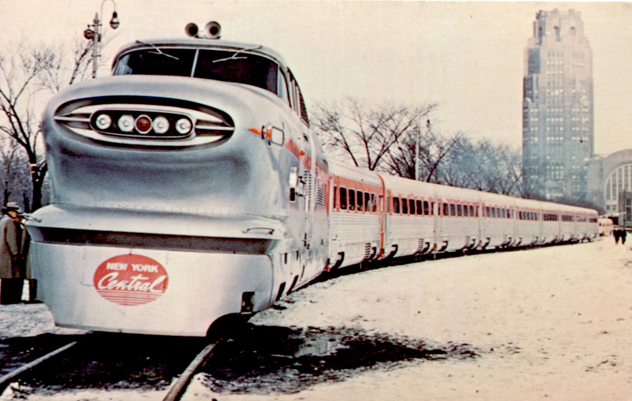 Postcard photo of the New York Central Railroad's Aerotrain as it was displayed for the public at Buffalo Central Terminal in 1956.